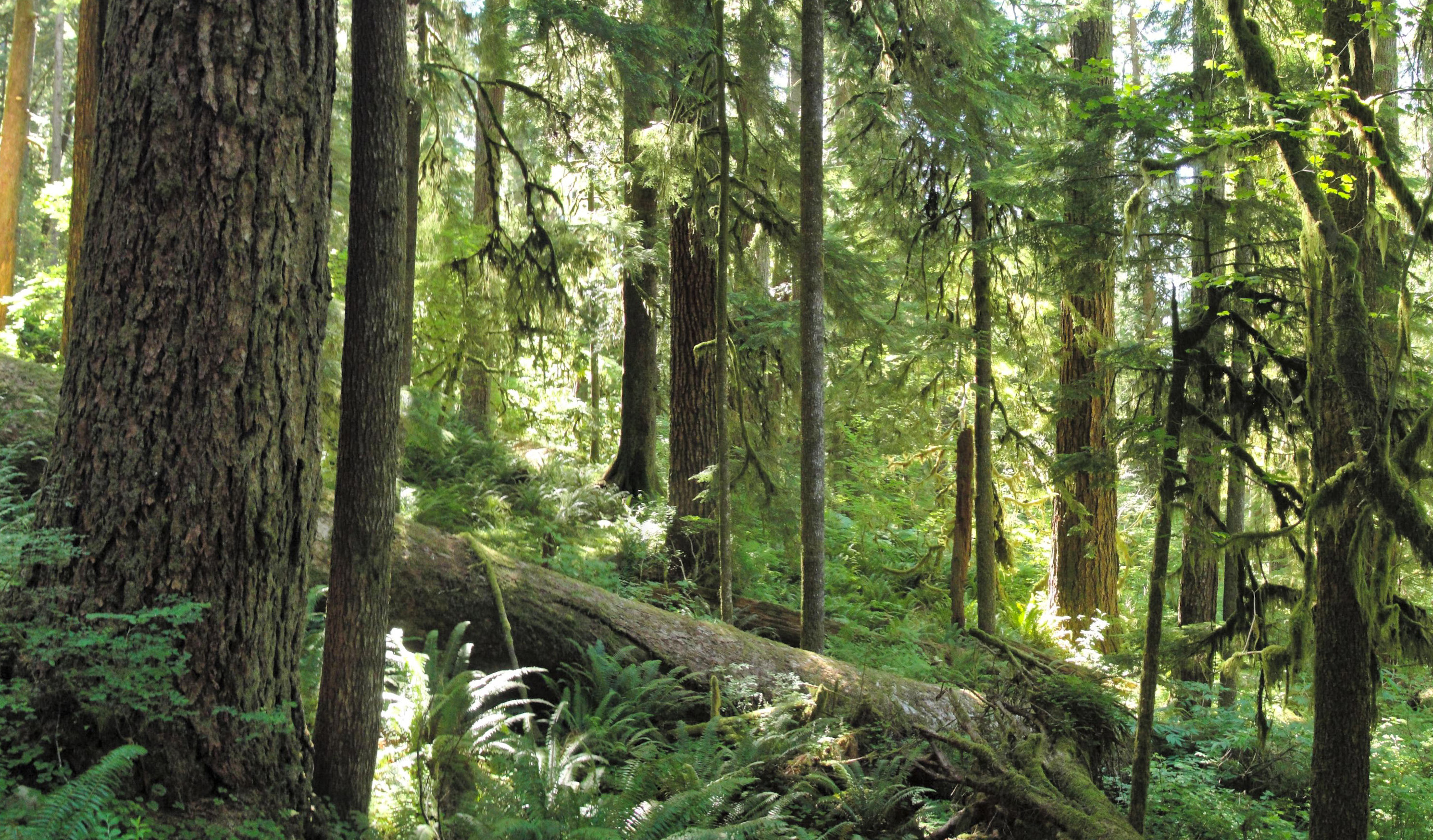 Old-growth temperate rainforest on the Skyline Trail to Three Lakes in Olympic National Park. Trees include Pseudotsuga menziesii, Thuja plicata, and Tsuga heterophylla.